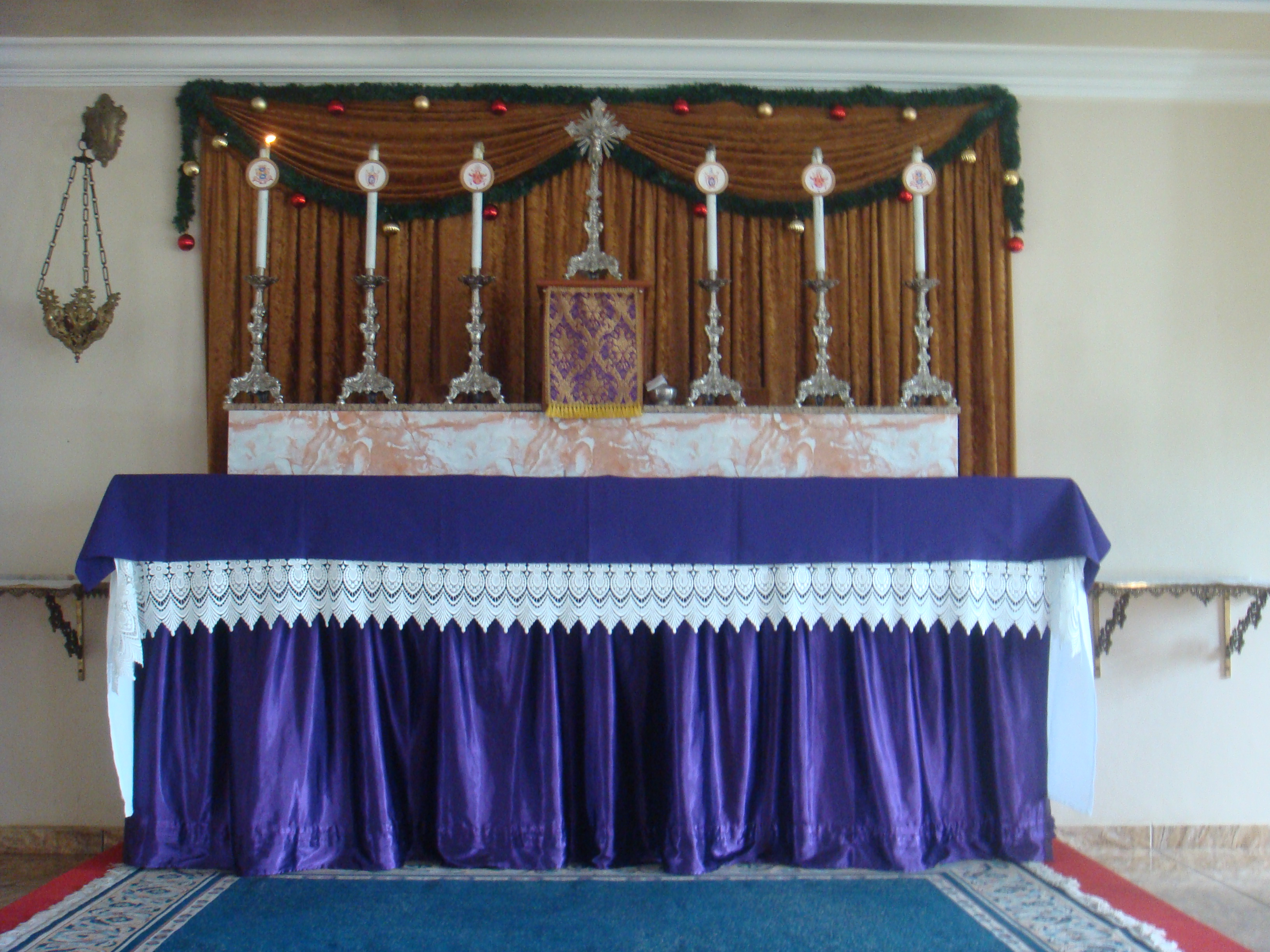 A temporary chapel erected in Room Auditorium, of the Seminar Imaculdade Conception of Mary, in the Apostolic Administration Saint John Mary Vianney, which will be used until the end of Chapel definitive. Altar prepared for the season of Advent, decorated with purple tablecloths and candles, the crests of the Seminar, the Administration, and the Pope. Campos dos Goytacazes, RJ, Brazil, 2012.